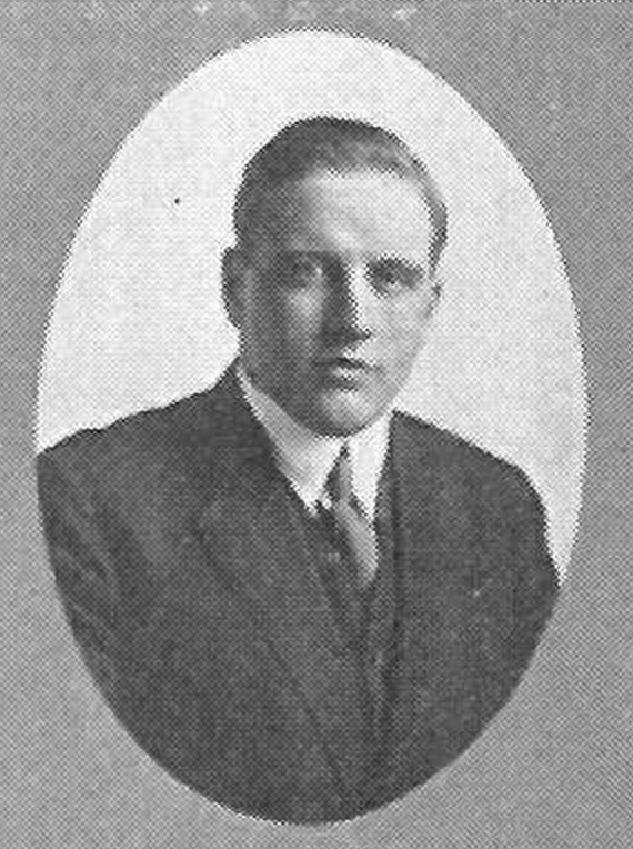 Wayne Sutton at the University of Washington, circa 1914